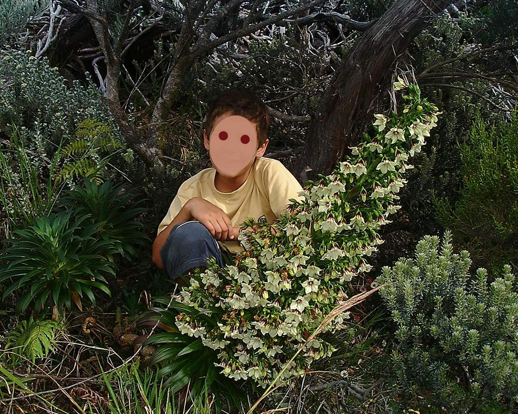 Heterochaenia rivalsi (Campanulaceae) Photo : B.navez - nov 2002 - Réunion island The child (8 years old) gives the size of the flowering plant. Behind one can see two plants as they are when not flowering.